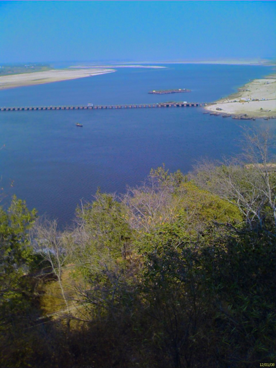 Ganges near Chunar